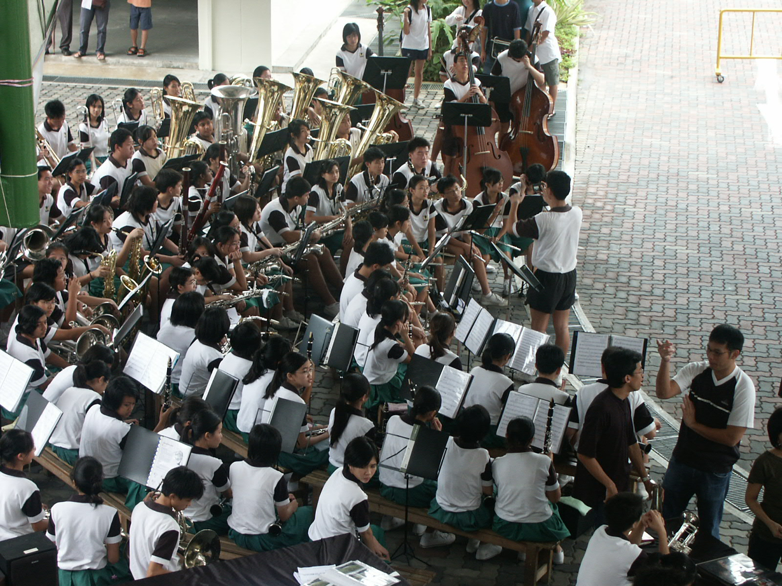 Band practice at Tanjong Katong Secondary School in Singapore.